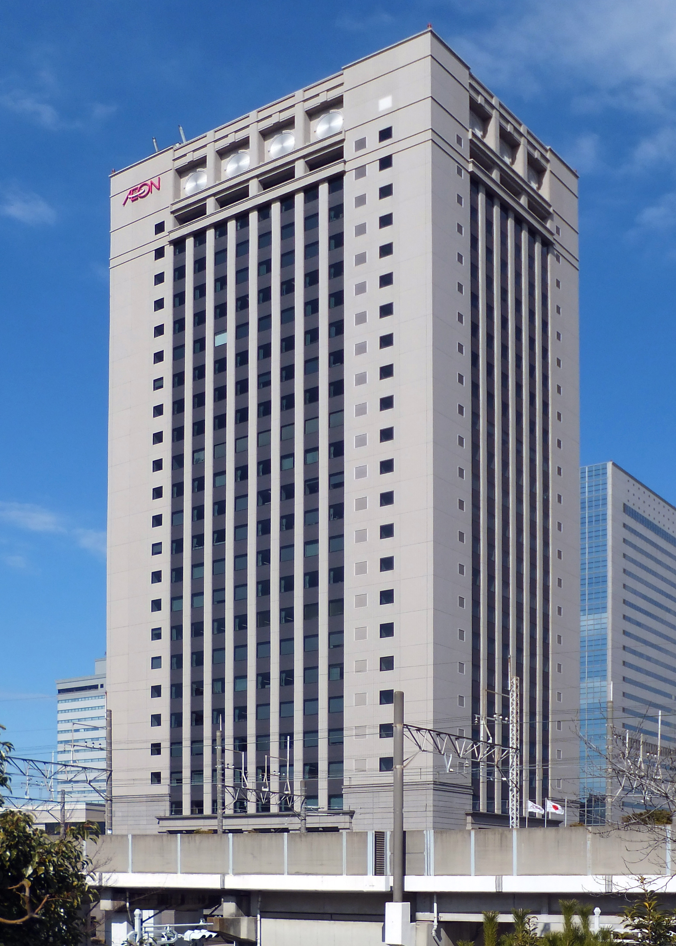 Headquarters of the AEON Group, in Chiba, Chiba, Japan